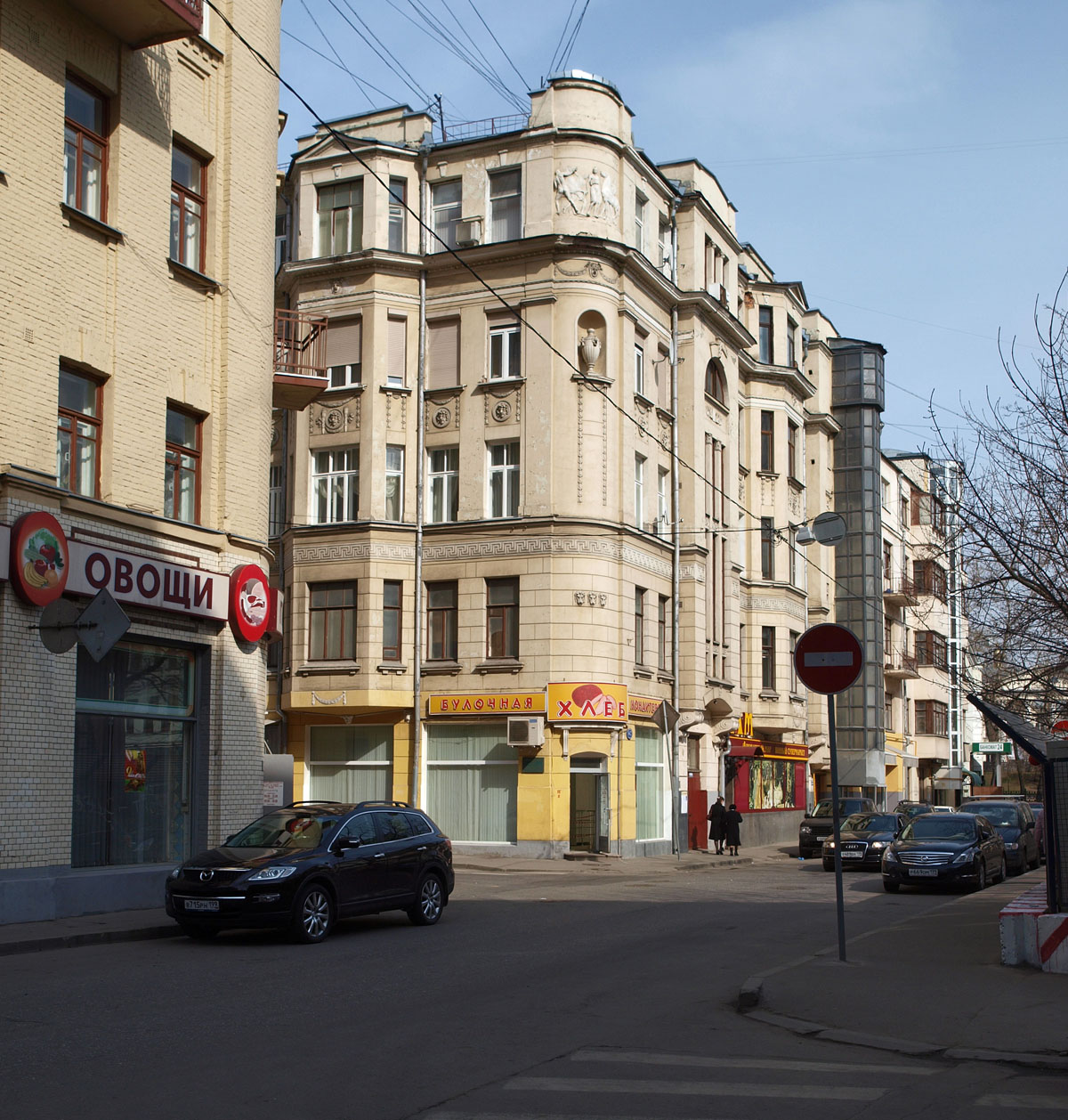 Sivtsev Vrazhek Street, Moscow (corner of Filippovsky Lane visible). Nos. 8 and 6 - turn-of-the-20th century luxury apartments